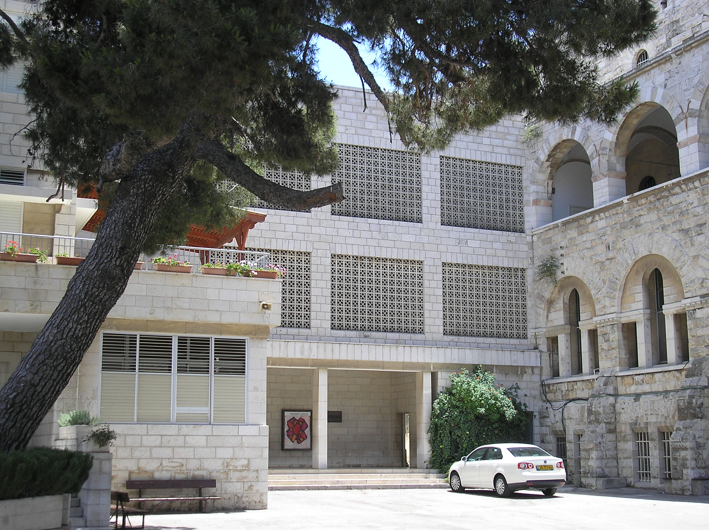 Paulus-Haus (old building) and Schmidt's College (new bldg.)